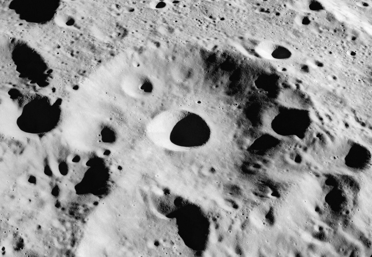 Oblique view of Lauritsen crater, on the moon, facing south